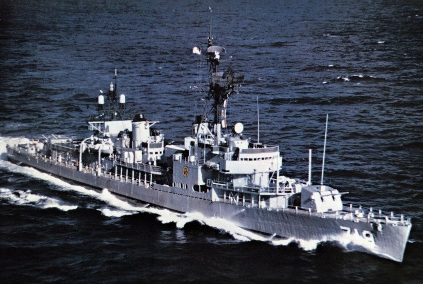 The U.S. Navy destroyer USS Epperson (DD-719) underway in 1970.